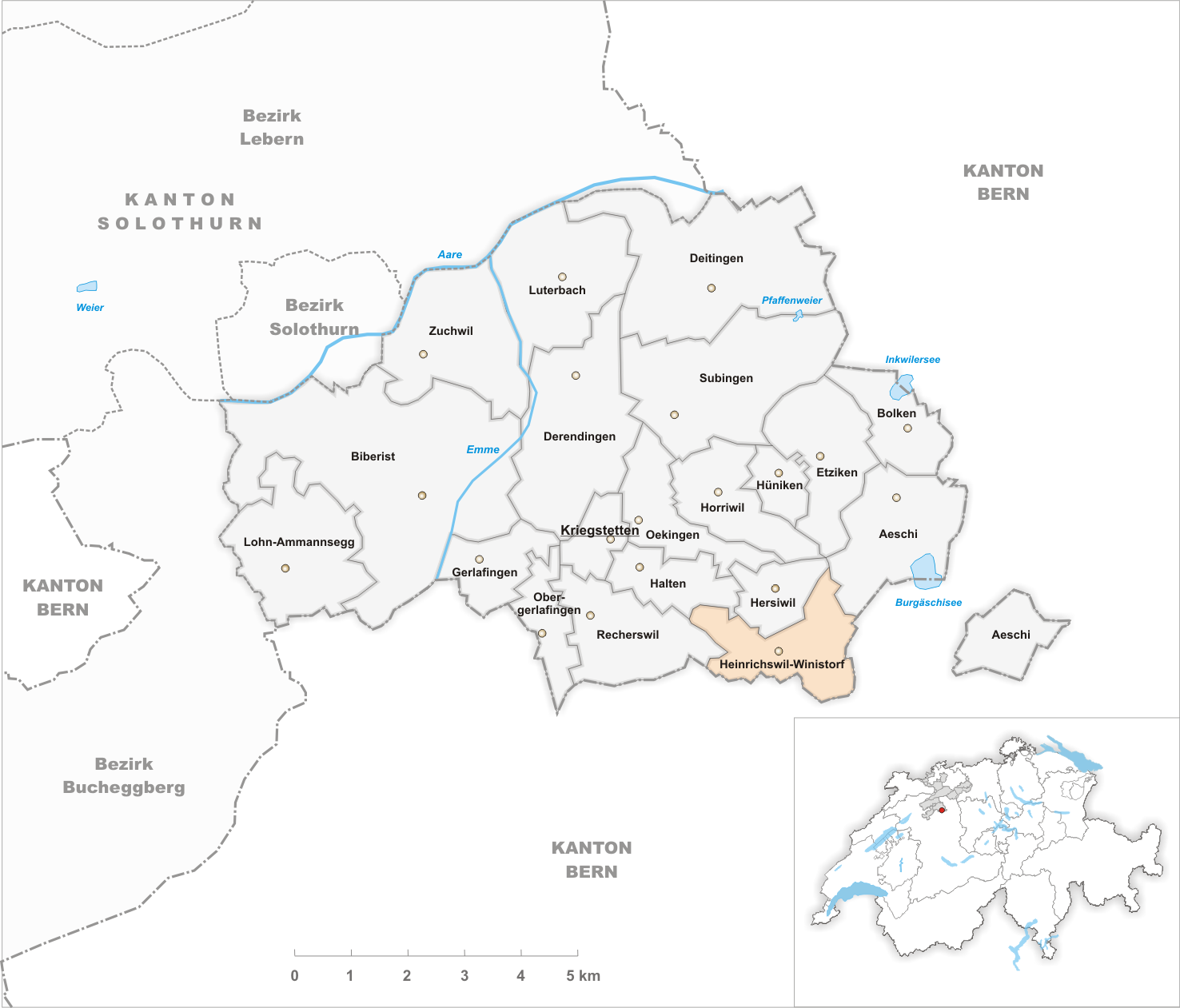 Municipality Heinrichswil-Winistorf